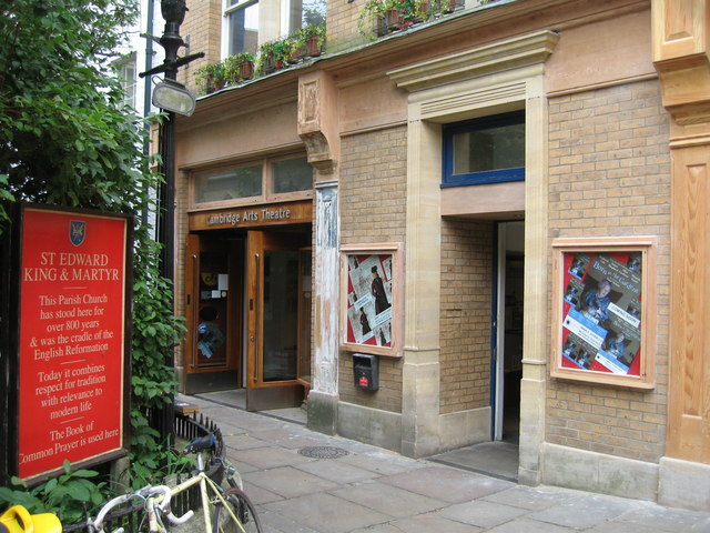 Side entrance - Cambridge Arts Theatre St Edwards Passage.